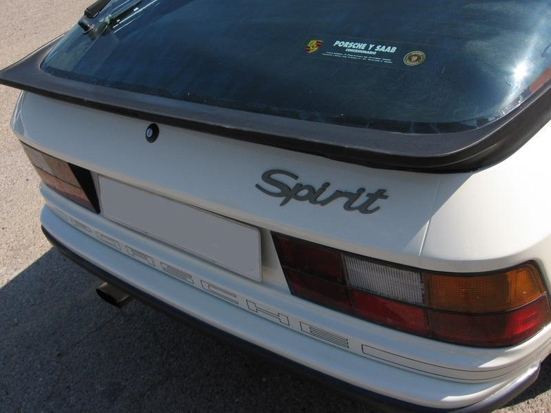 Porsche 924 Spirit (Spain - 1988)